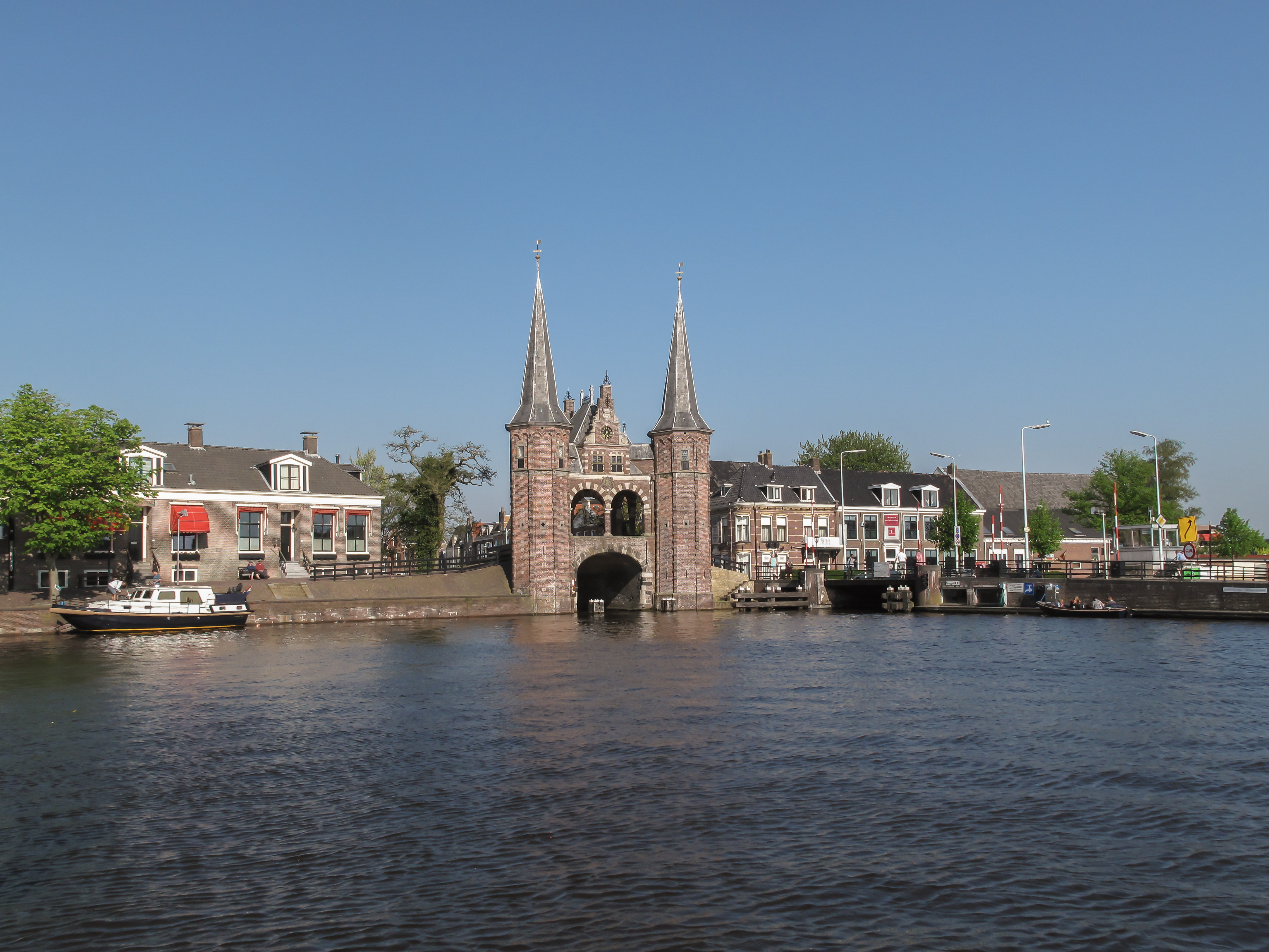 Sneek, monumental building: de Waterpoort